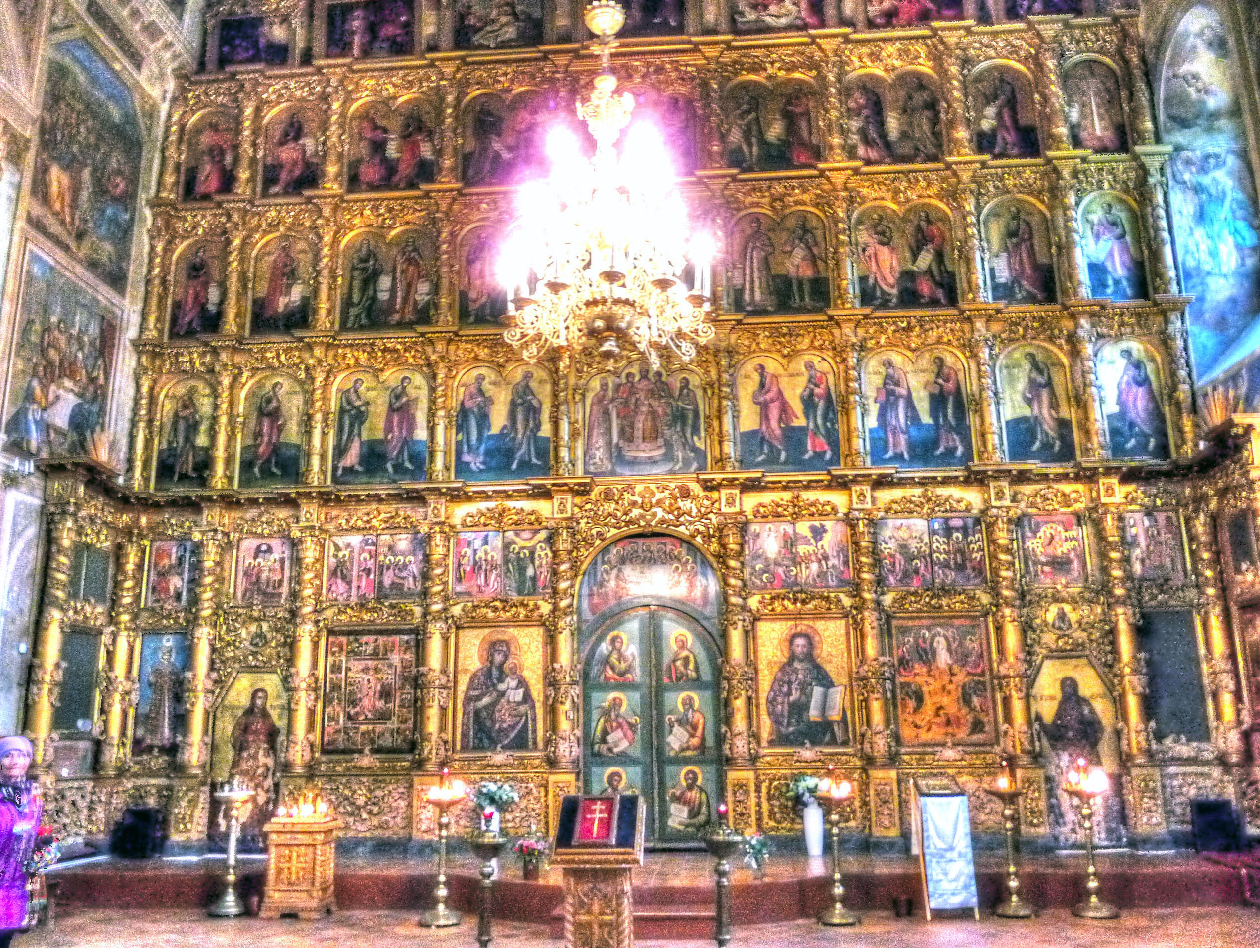 Uglich Cathedral of the Ressurection Iconostasis